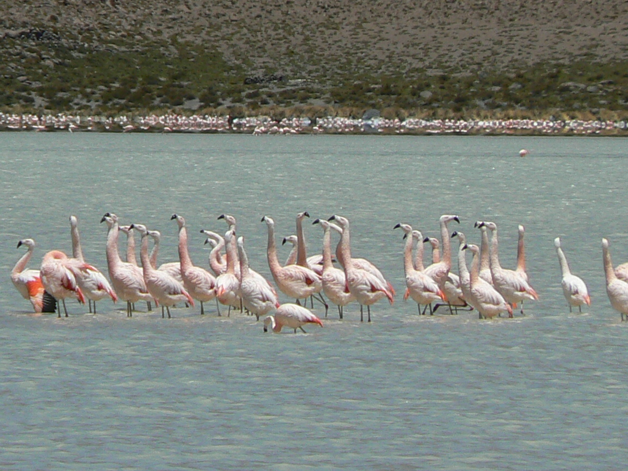 Chilean Flamingos at Laguna Cañapa, a lake in the Potosí Department, Bolivia.